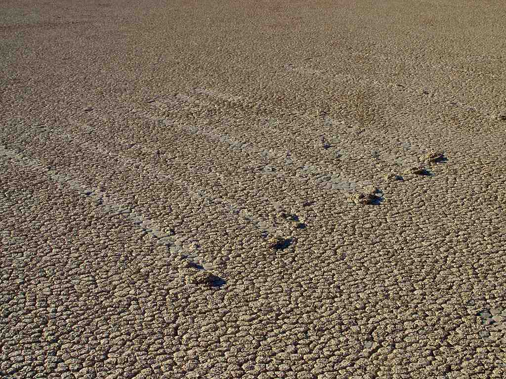 Sliding rock of Racetrack Playa